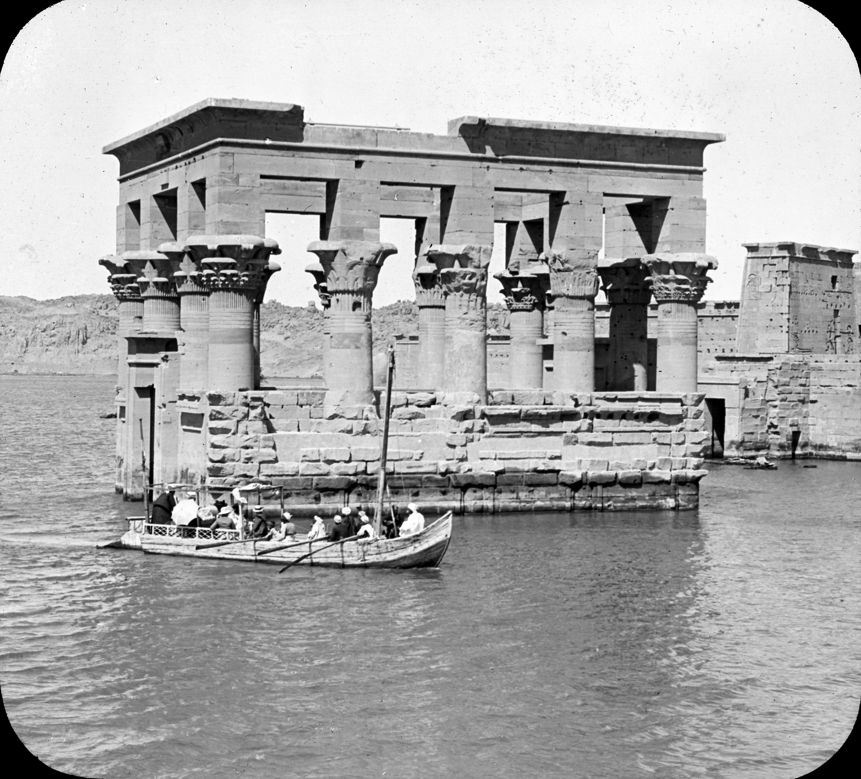 Lantern Slide Collection: Views, Objects: Egypt. Philae. [selected images]. View 09: Kiosk. Temple of Philae, Egypt., 1908., Copyright, 1908, by Stereo-Travel Co. Brooklyn Museum Archives (S10.08 Philae, image 9946).